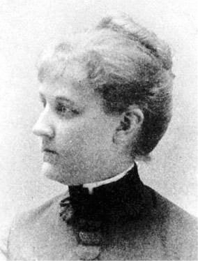 Louise Blanchard Bethune (1856-1913), first female american architect